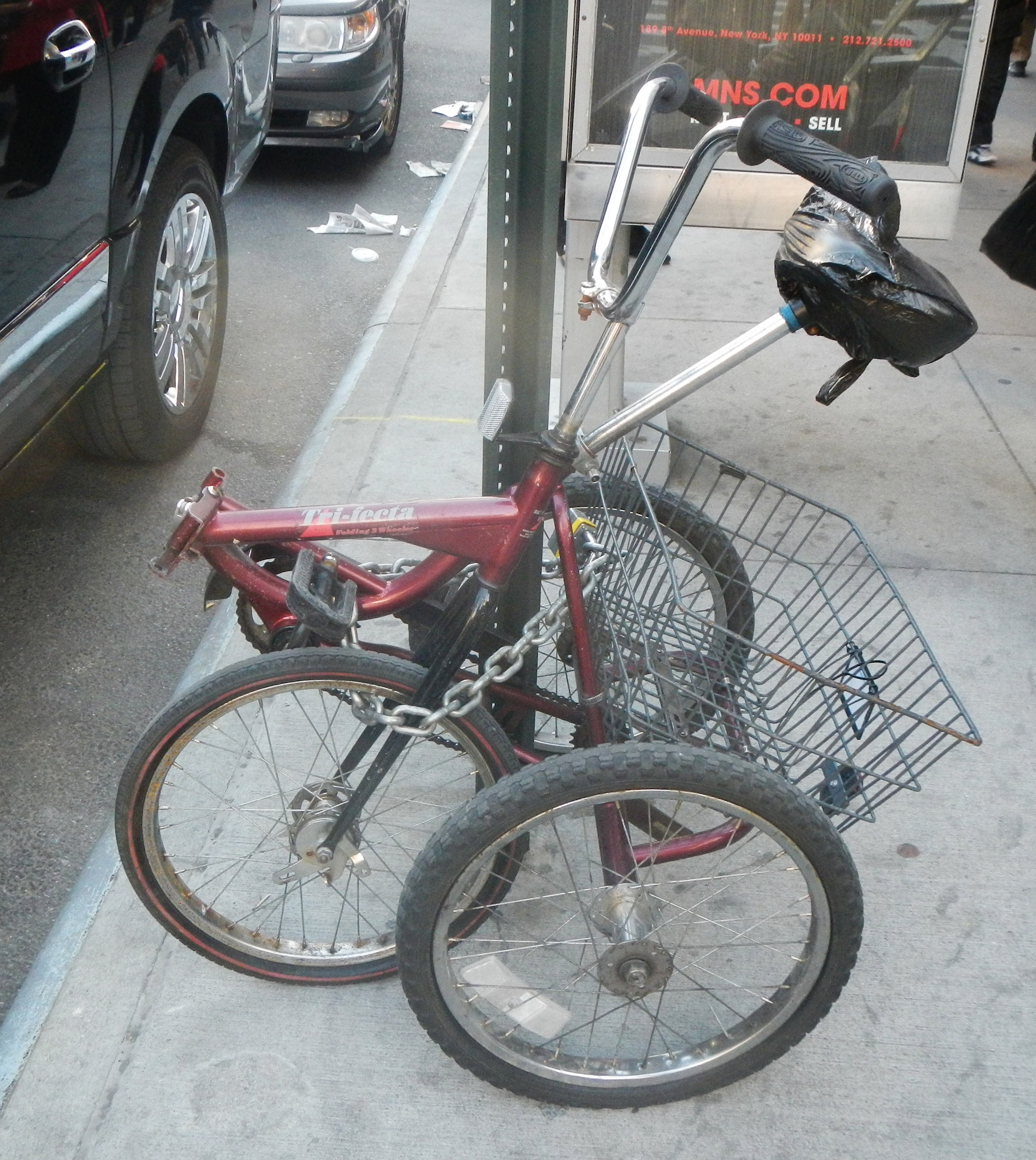 Folded tricycle in Midtown.